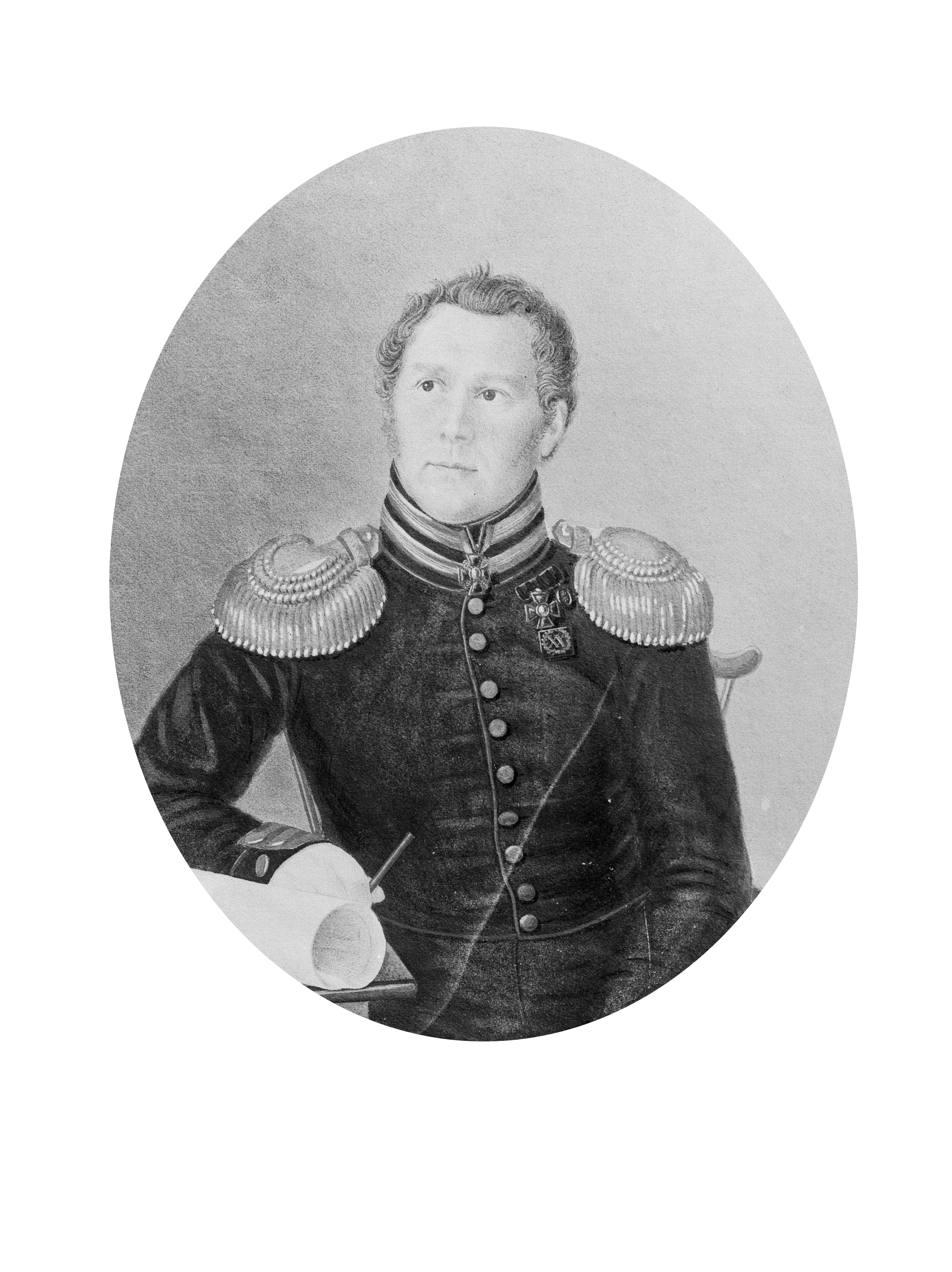 Carl Rosenkampff portrait by Arvid von Cederwaldin painted in 1833, original photograph made by Daniel Nyblin between 1879 and 1904.